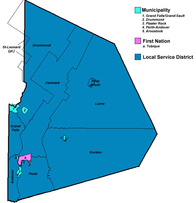 Municipal units of Victoria County, New Brunswick. After files from Service New Brunswick